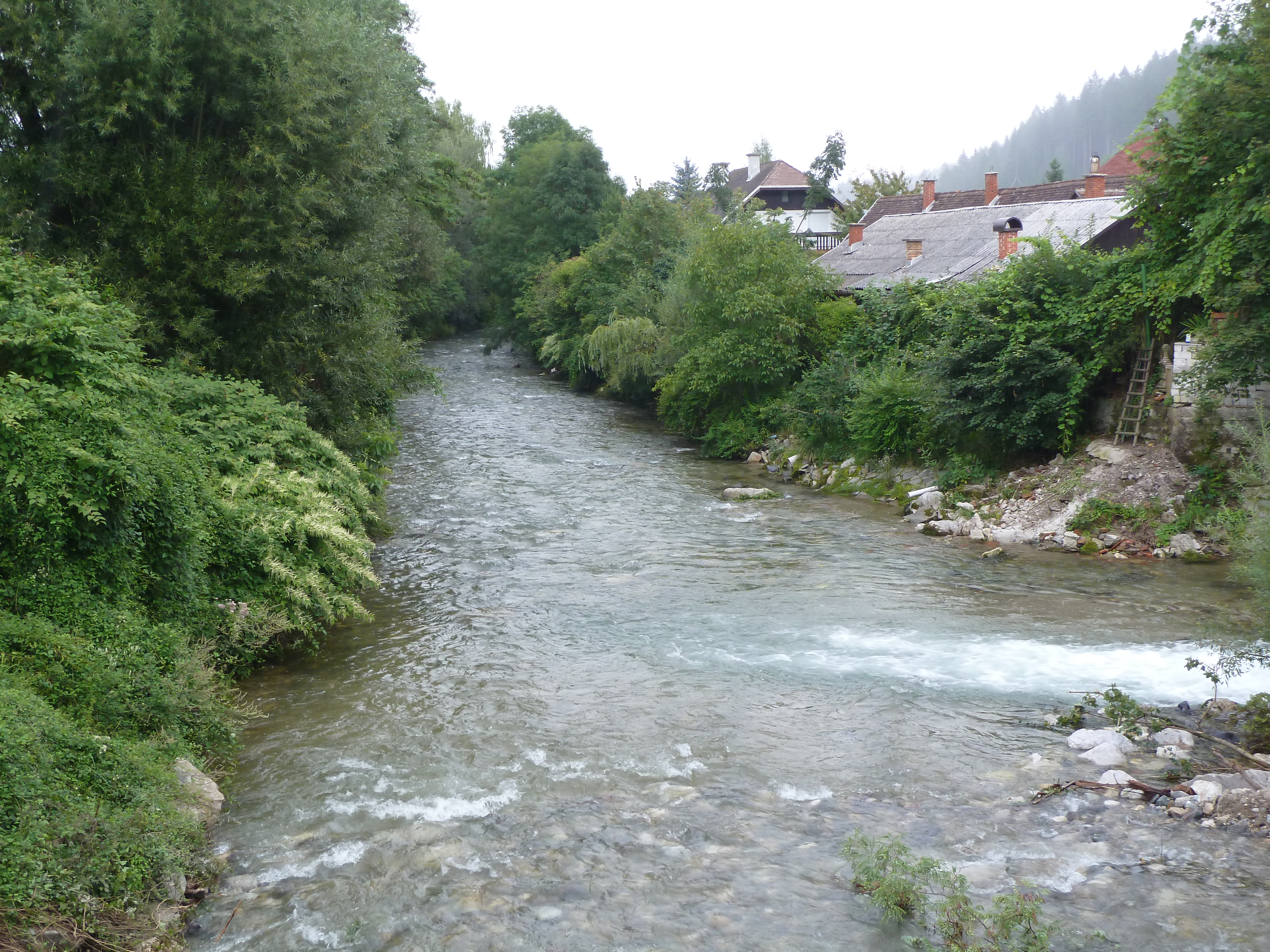 Meža River in the town of Prevalje at the confluence with Leški graben